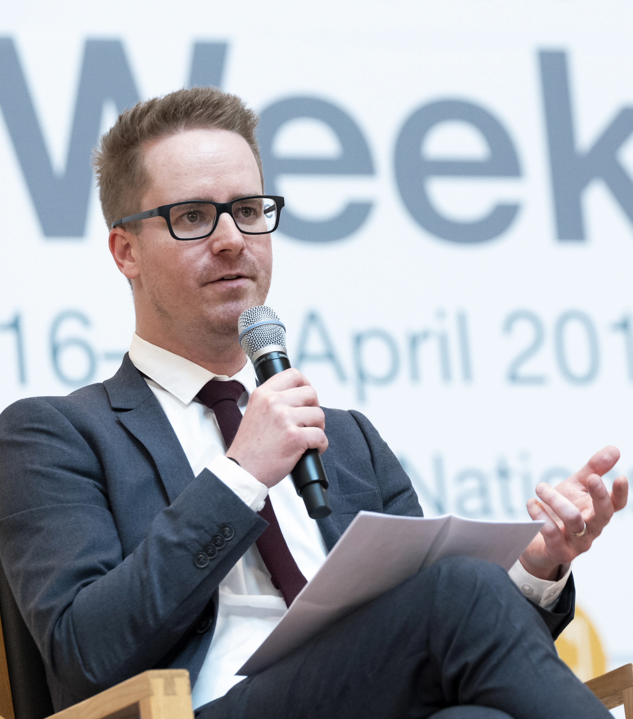 Nick Srnicek, Lecturer in Digital Economy in the Department of Digital Humanities Kings College, of London, High Level Dialogue: Development Dimensions of Digital Platforms. 17 April 2018. UN Photo / Jean-Marc Ferré